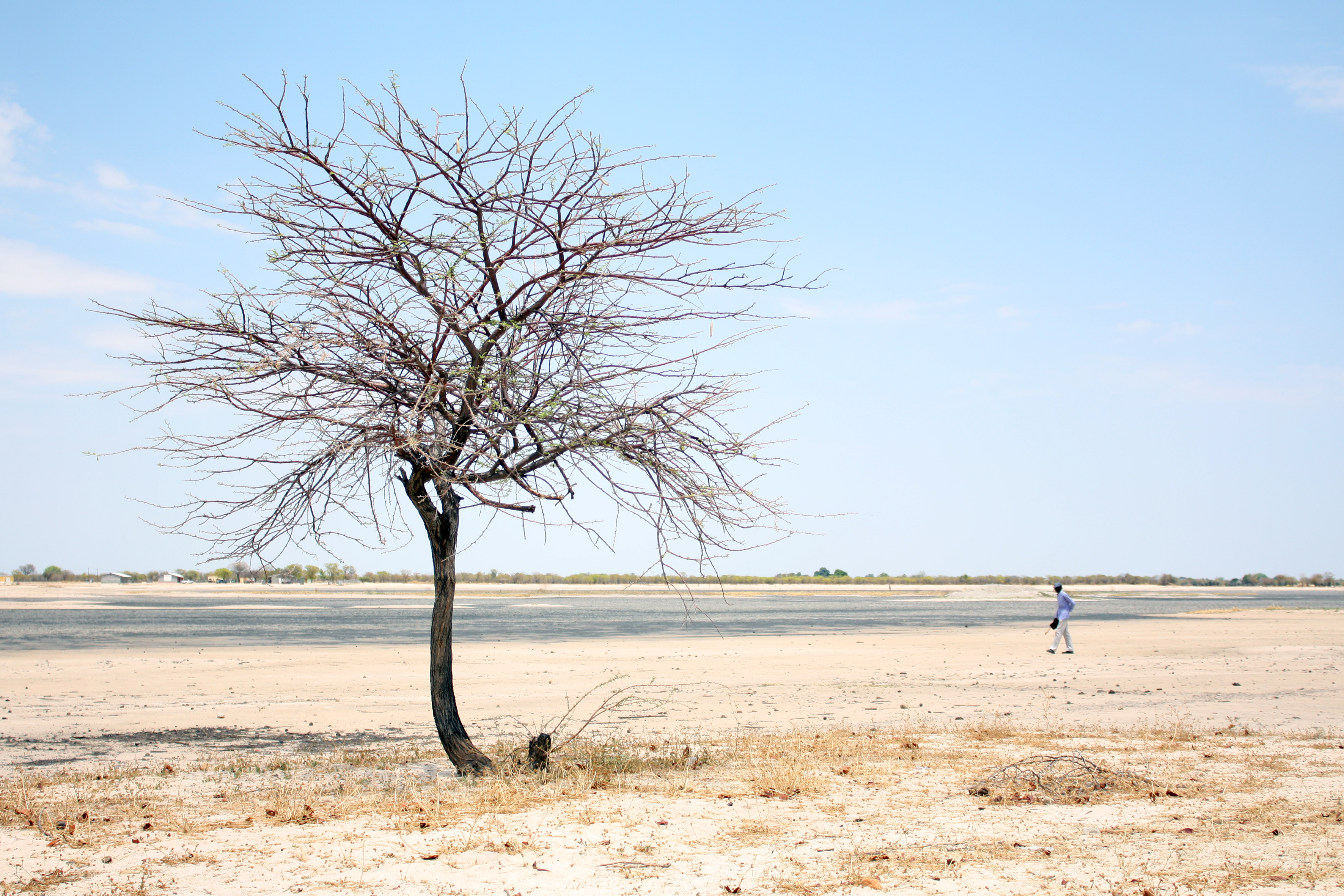 Cars and public transport exist but are not always around in the rural areas, especially when visiting the neighbouring village. Often the easiest choice is to just start walking and maybe someone will hitch you a ride. This image was captured in the Oshana Region during a documentary shoot in late 2008 before the rainy season. The open plain behind tree is known as an Oshana or seasonal lake. Oshanas will flood with rain water and turn into a temporary lake until it evaporates during the dry season (usually June until October). This is an image with the theme "Africa on the Move or Transport" from: Namibia